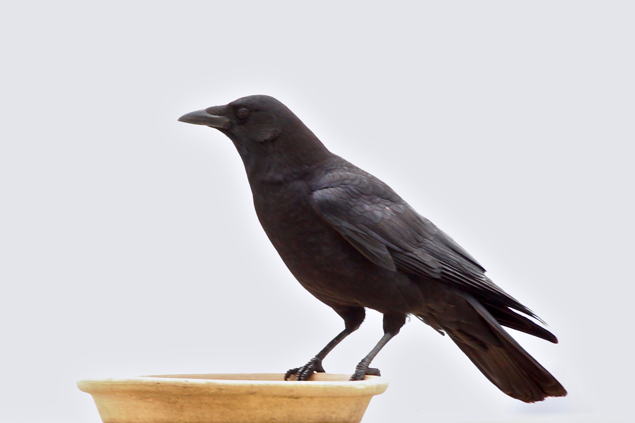 American Crow (Corvus brachyrhynchos), Brooklyn, NY, USA 20180512 - in profile, against light blue sky, perched on a ceramic dish.